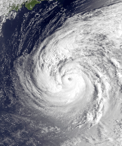 Typhoon Ivy on September 6, 1991. At the time Ivy had winds of 102.6 knts (118.1 mph, 190.1 kph), 1-min sustained and a pressure of 940 mbar. Ivy was about 640 miles away from land. This image was taken by the NOAA-10 Satellite.